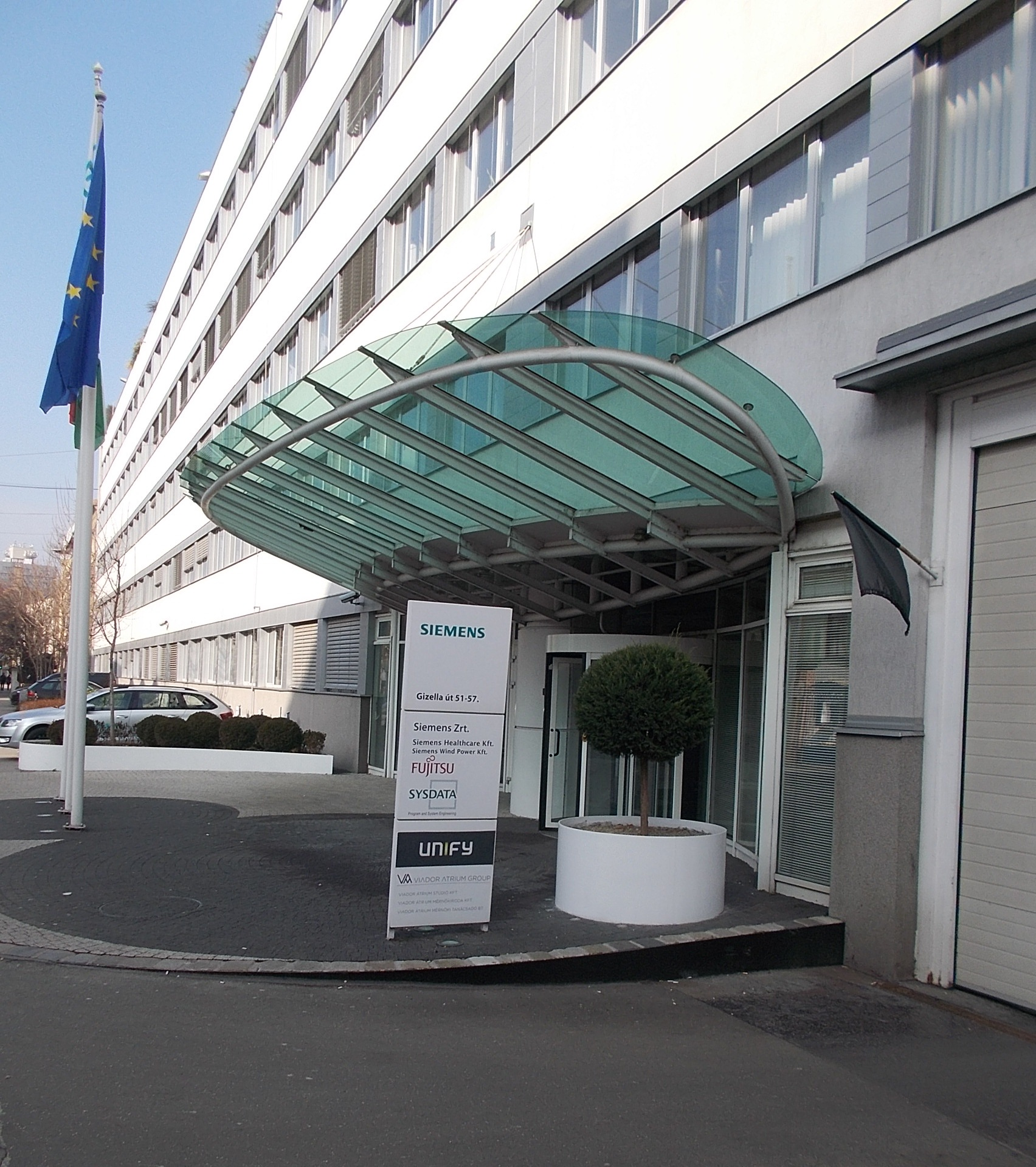 Siemens AG, Healthcare and Wind Power divisions. Fujitsu Technology Solutions Ltd., Sysdata PSE (Program and System Engineering), Viador Átrium Group ( (successor of Apostroph Műterem Kft.). - Gizella út, Istvánmező neighborhood, 14th District of Budapest.